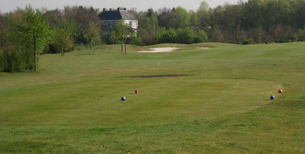 Ladies teebox on the 16th hole at Best Golf & Country Club